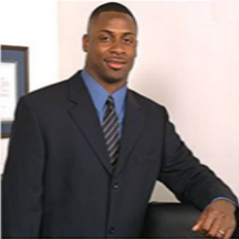 Picture taken at office